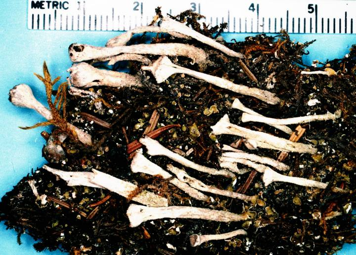 Cladonia fimbriata (L.) Fr., 1831 (photograph of a herbarium specimen) Growing on a moss covered rock wall near Wolf Point at Fundy National Park, New Brunswick, Canada; collected and identified by A. Norden and B. Norden (No. 715, 5 Jun 1974); specimen is now in the Lichen Herbarium of the New York Botanical Garden. (millimeter scale)